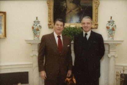 David C. Jordan, Ambassador to Peru, poses with Ronald Reagan in the Oval Office.